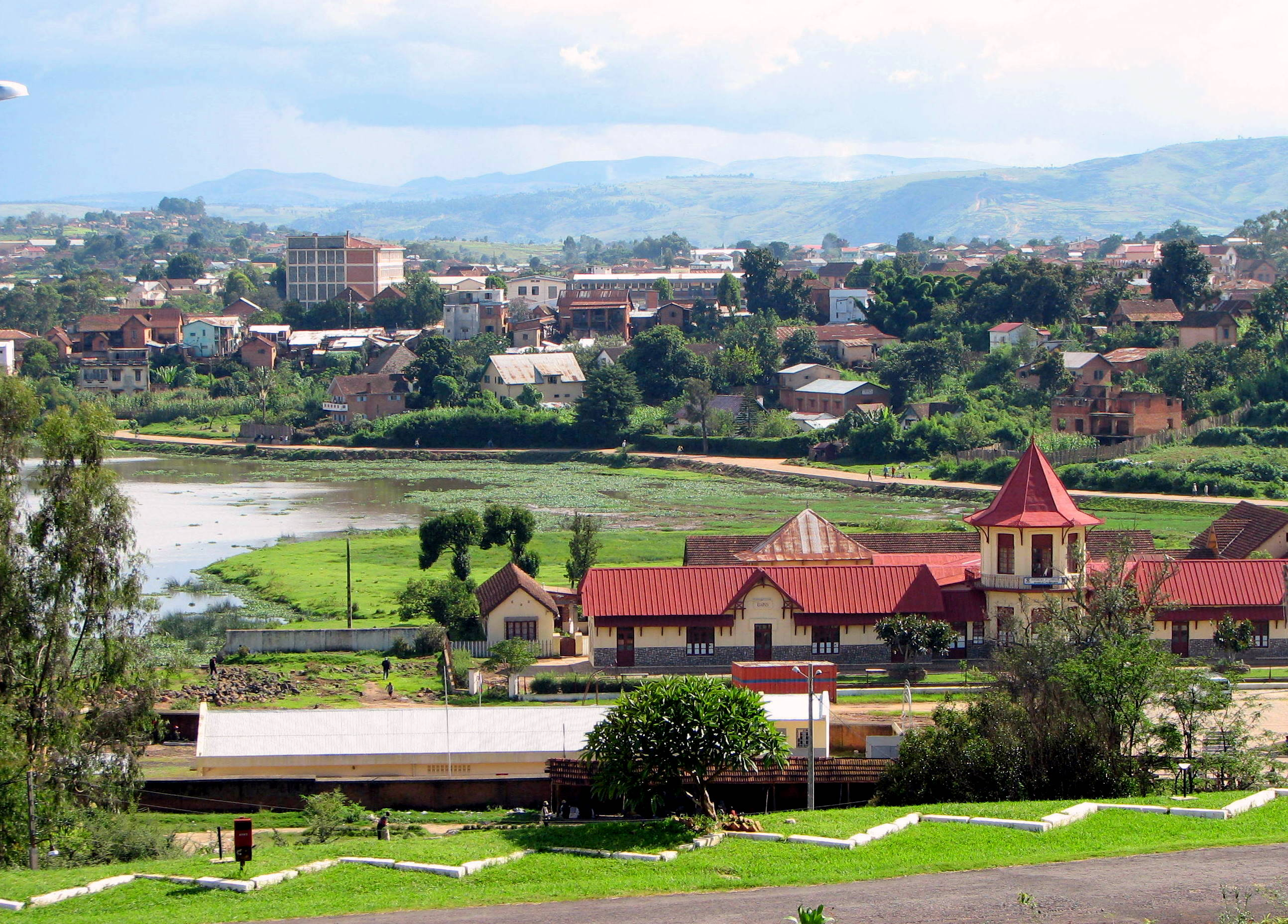 Lake Ranomafana and thermal building of Hotel des Thermes, Antsirabe, Madagascar